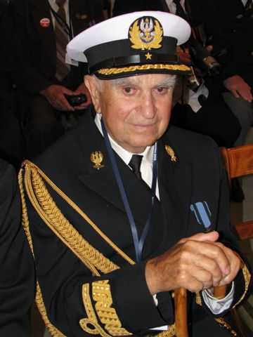 Jerzy Tumaniszwili (b. June 21, 1916 in Moscow) – Polish veteran, soldier of II World War. He lives in Beavercreek (Oregon), USA